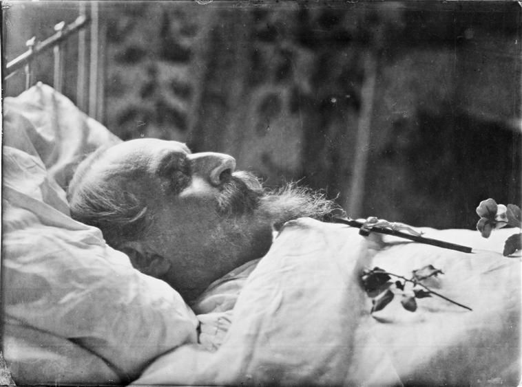 Emperor Napoléon III on his death bed, 1873 - William & Daniel Downey